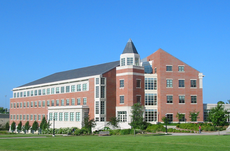 Photo of Cornell Hall on the campus of the University of Missouri, taken on July 20, 2005.